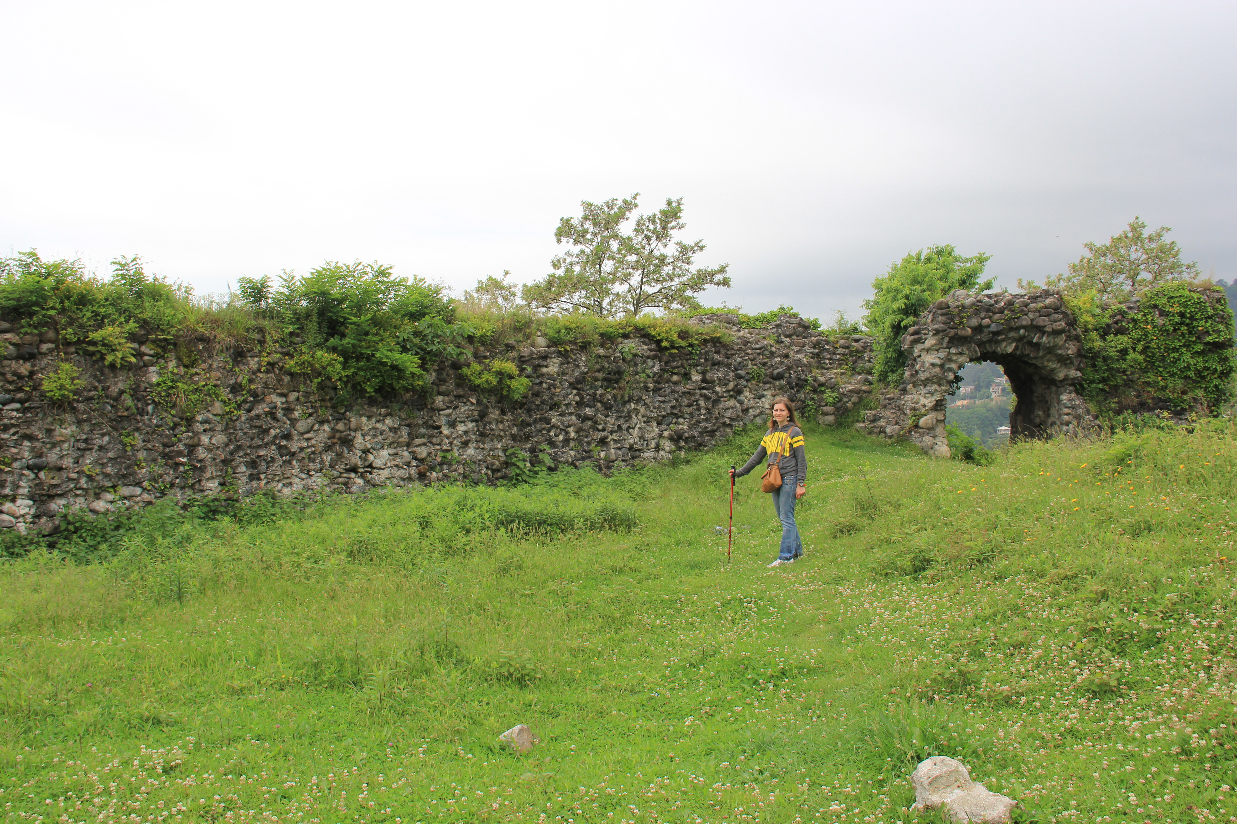 Castle by Bagrat III, Sukhum. Internal square